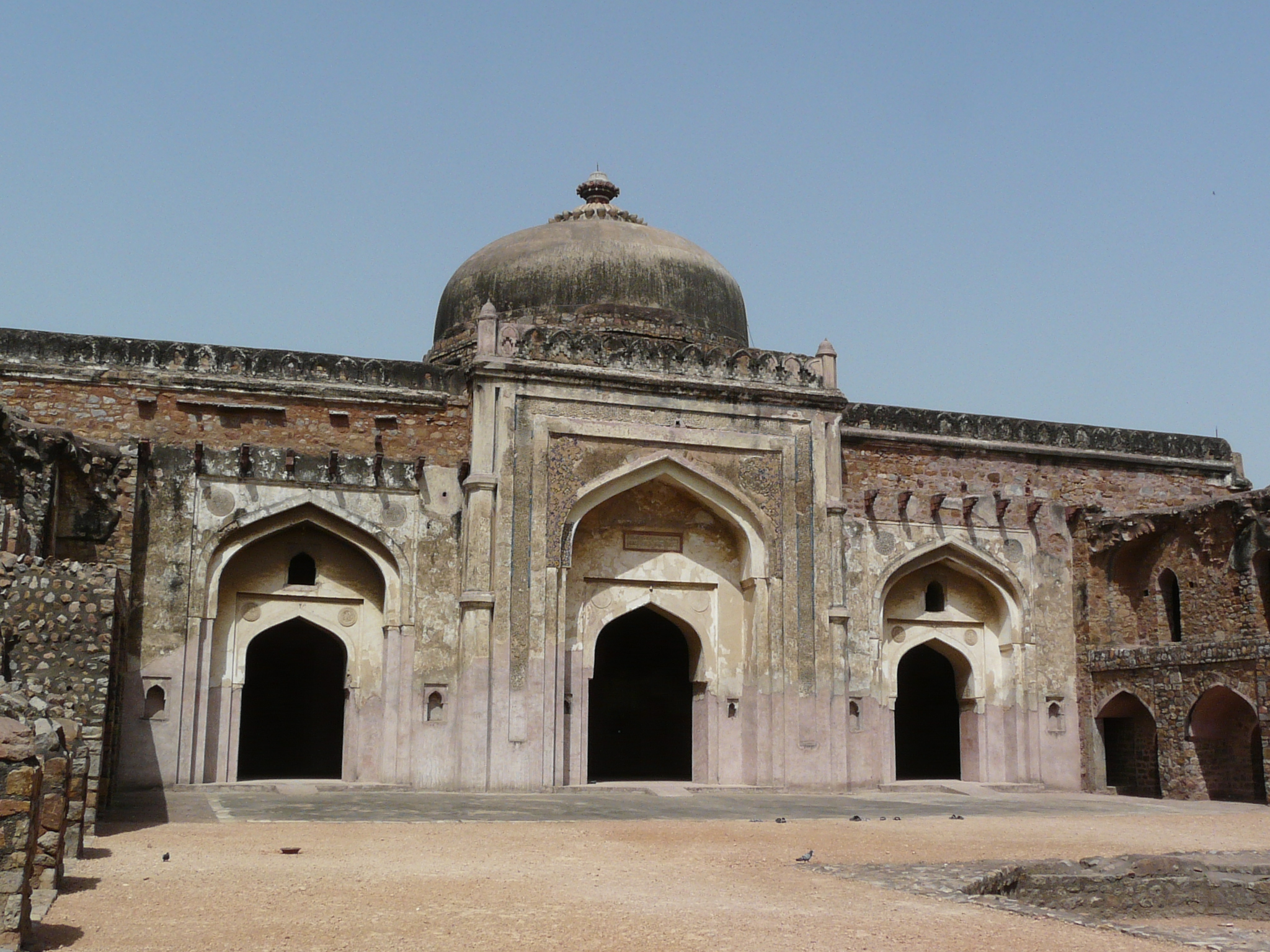 Khairul Manazil, opposite Purana Qila, Delhi. A mosque and later a madarasa built by Akbar's foster mother Maham Anga, and mother of Adham Khan, in ca 1561 CE.